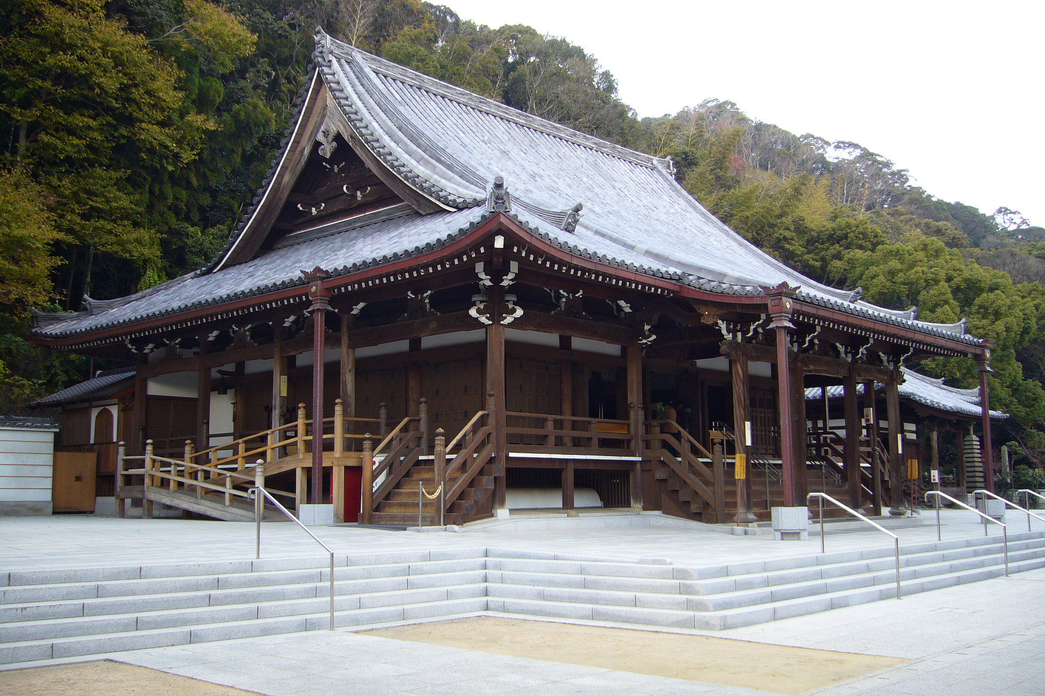 Sumadera in Kobe, Hyogo prefecture, Japan